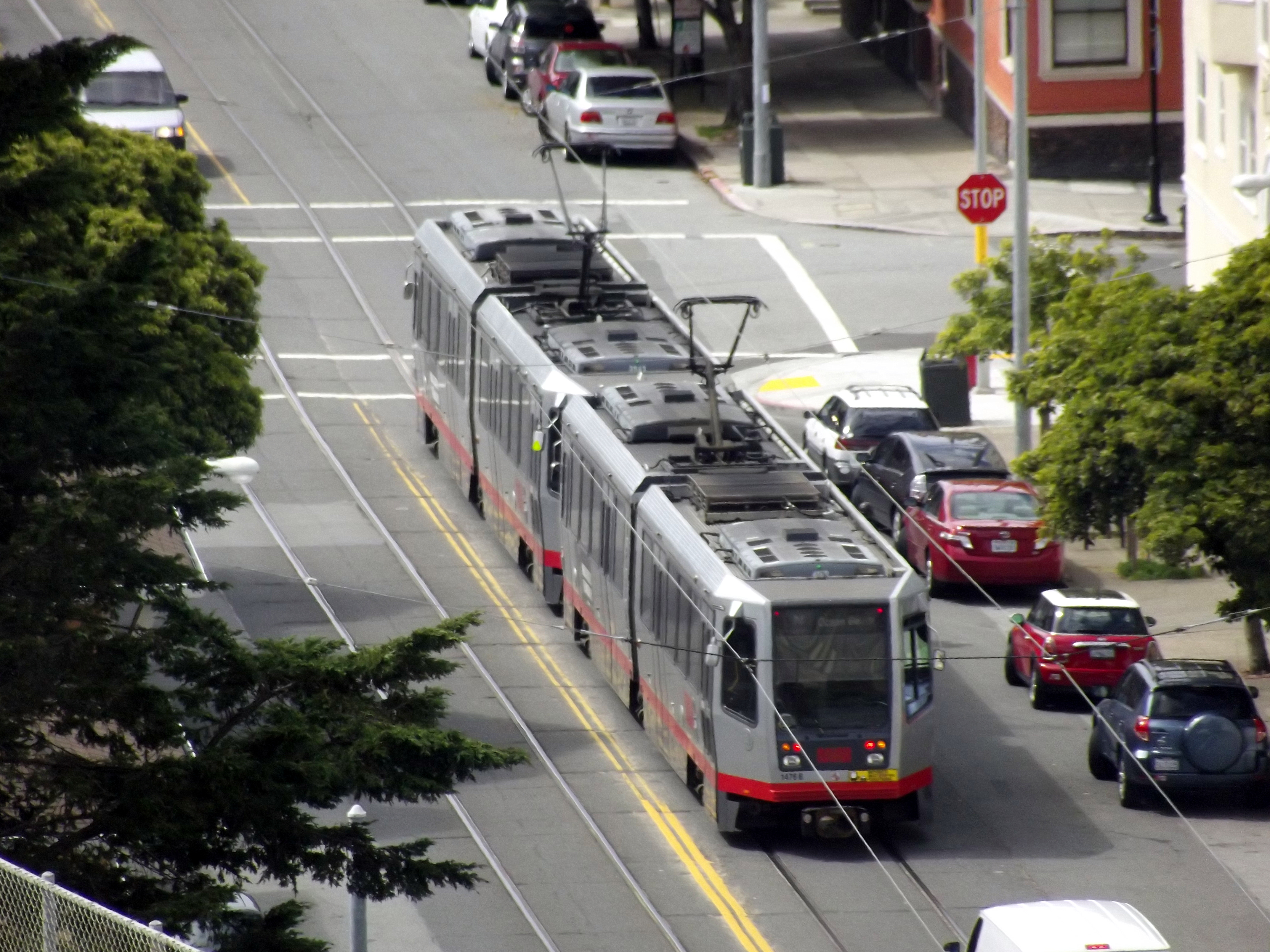 A westbound N Judah train about to cross 4th Avenue in March 2012